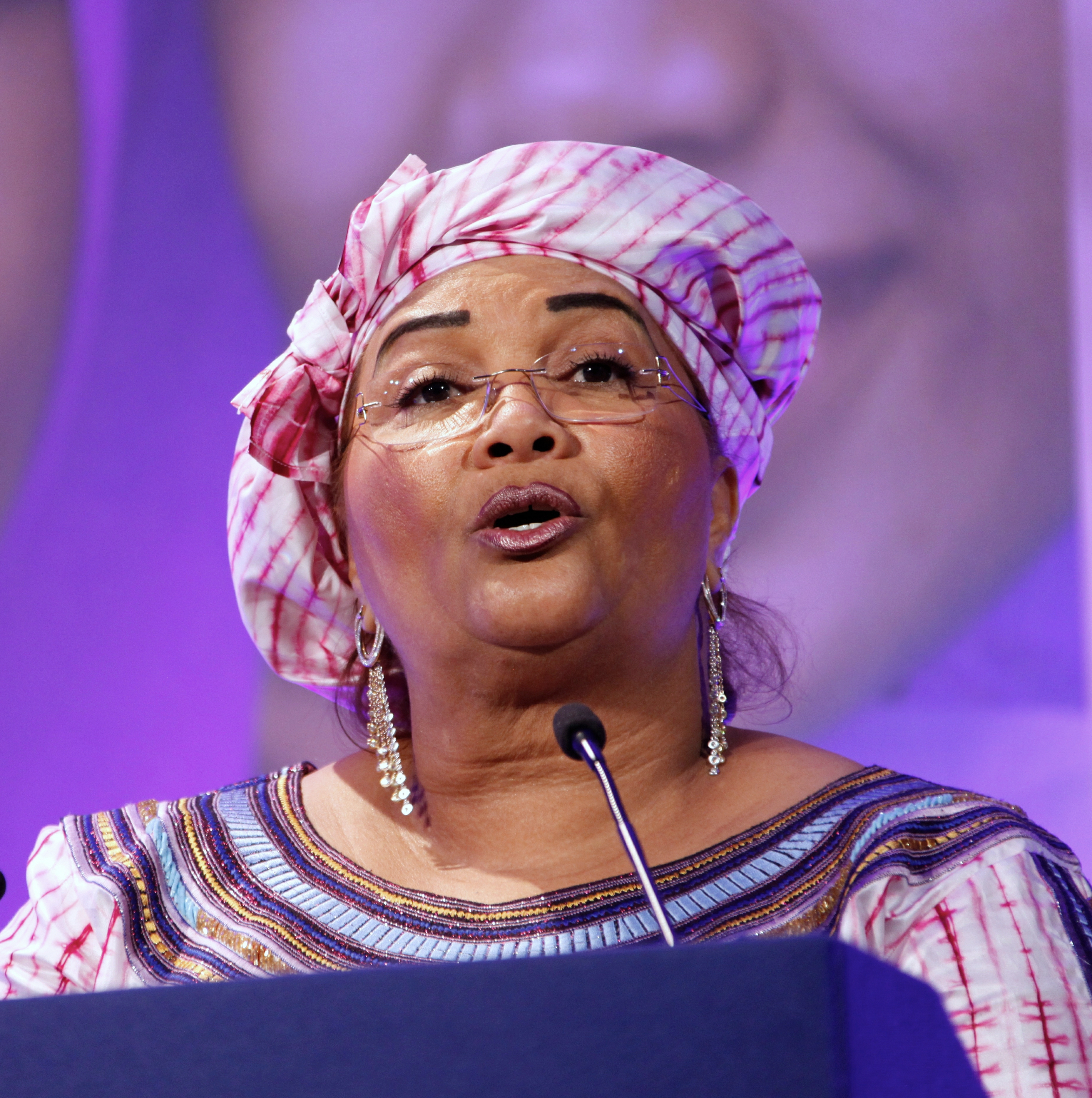 London, 11th July 2012. Chantal Compaore, First lady of Burkina Faso, speaking at the London Summit on Family Planning.